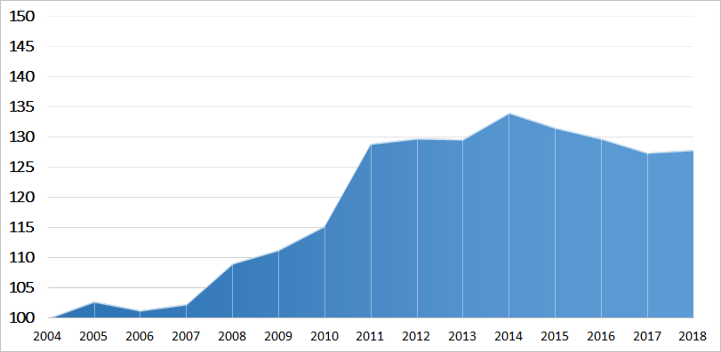 La curva mostra l'andamento dell'Indice del Divario Generazionale - fatto 100 l'Indice nel 2004 - al 2018.